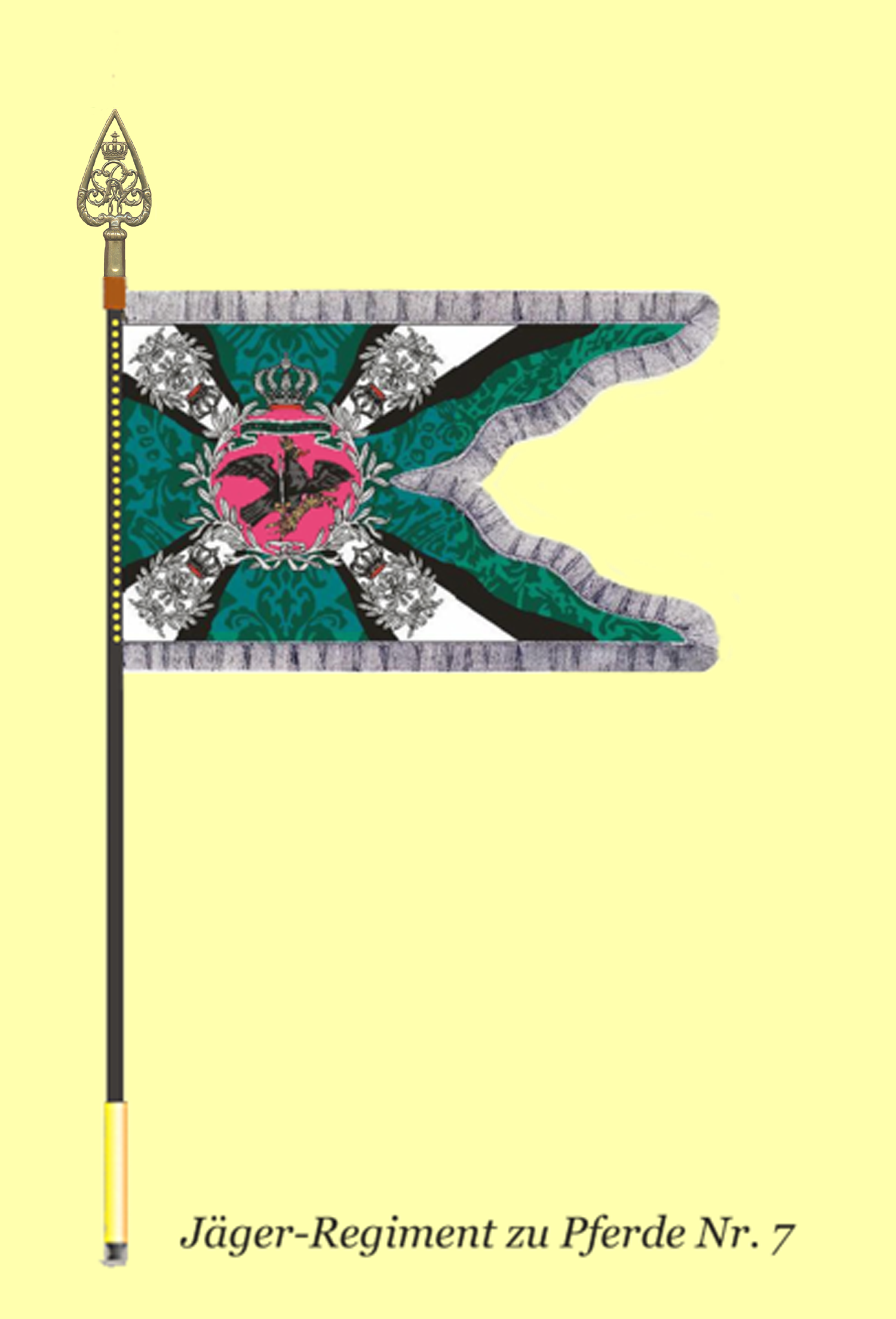 Colors of the royal prussian 7th Regiment of Mounted Rifles